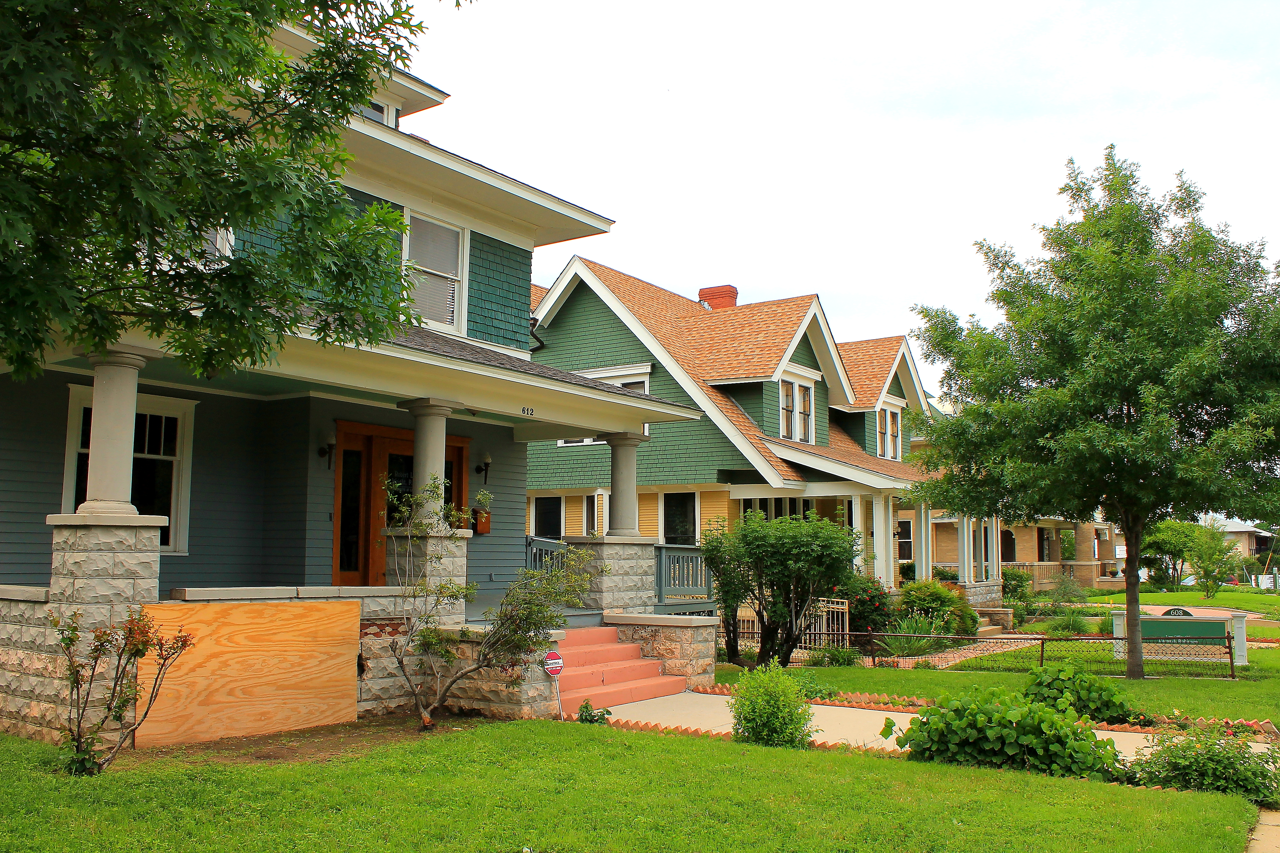 8th Street Historic District